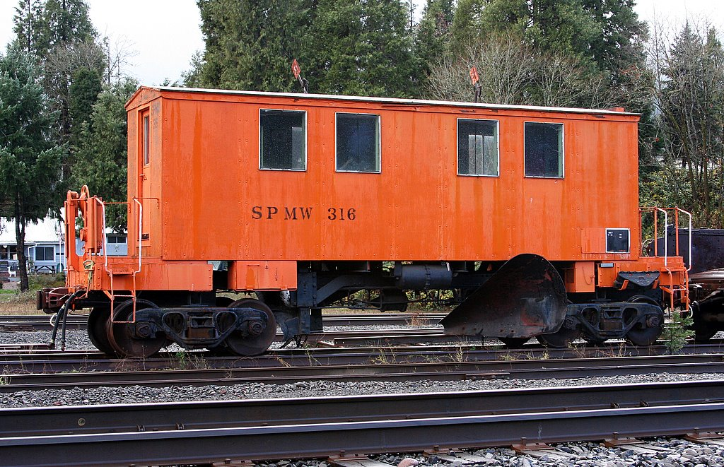 Flanger, used by the railroad to keep snow from packing between the rails, which could cause a derailment. Oakridge, OR.